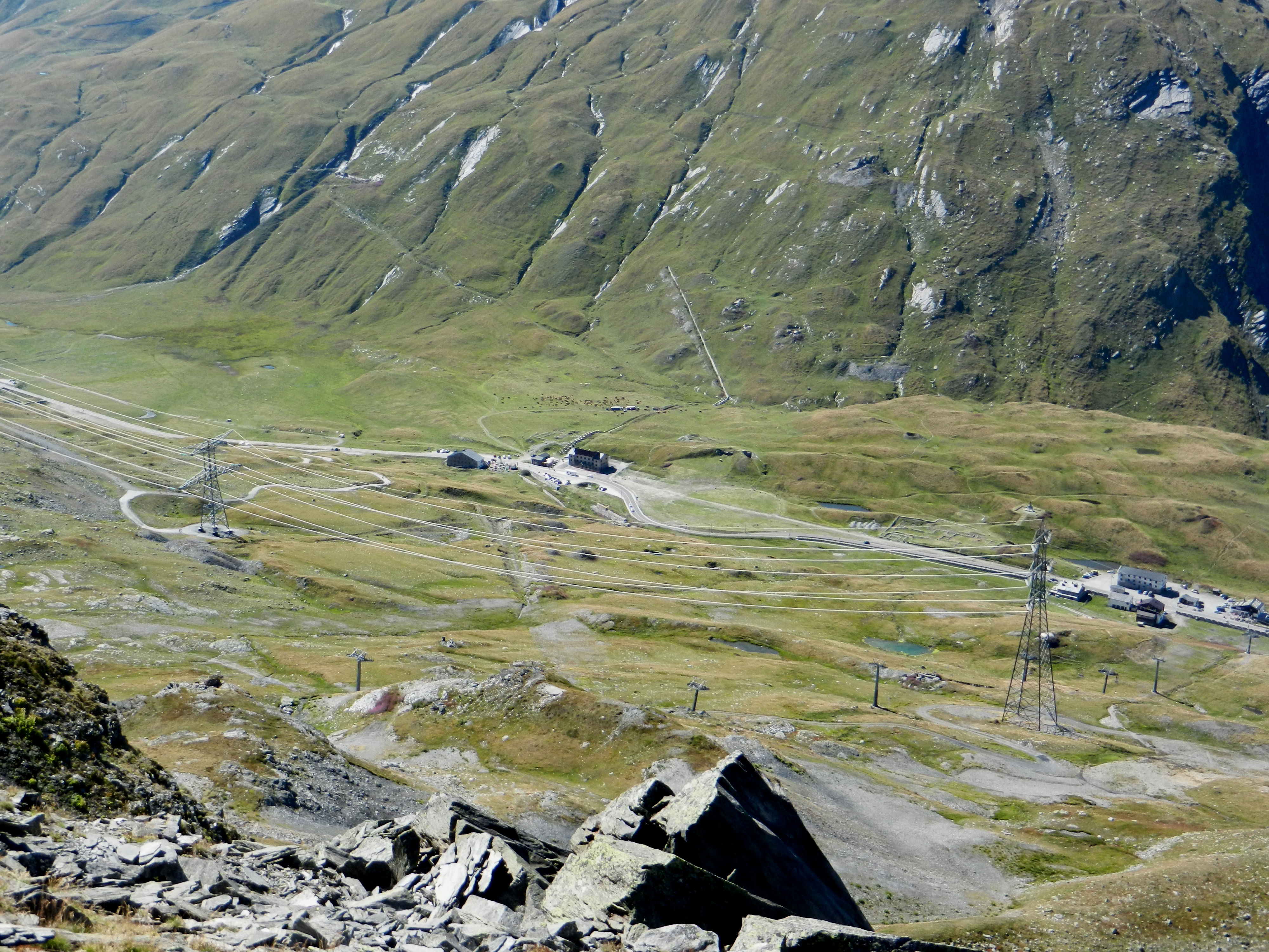 Aosta Valley, Italy, Little St. Bernard Pass